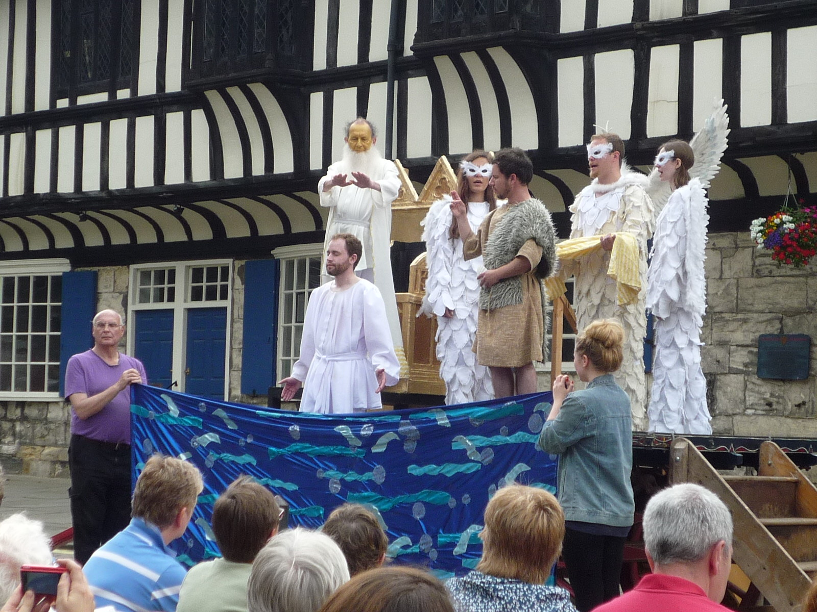 The Barbers' Play: The Baptism (text: original, modernised) from the York Mystery Plays performed from a cart in the streets of York by HIDden Theatre (page lists cast and crew). In the background is St William's College - built circa 1465. This is as about as close as you can get to how the plays were originally performed. This picture from the same production shows John pouring a bit of water over Jesus' head. True, this is the way it is done in numerous paintings of the scene but I, RHaworth say firmly that it is wrong - why was John making people trek down to the river when he could pour a little water in Jerusalem? Obviously because he was baptising by total immersion. When I played John, I did it that way - see picture. (To set the scene, I dunked a few other people before doing Jesus.) The possibility that it was immersion is discussed here without coming to any definite conclusion.